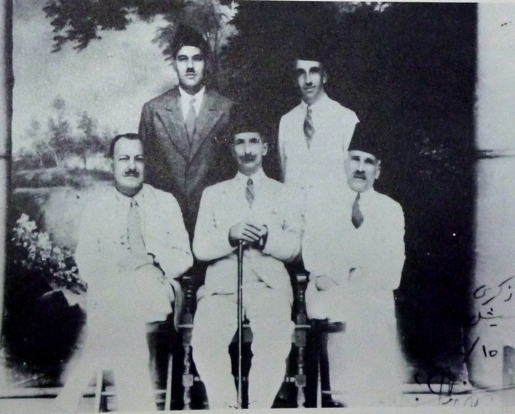 seated: Hussein al Khalidi, Ahmad Hilmi, Rashid al-Haj Ibrahim. Standing: Ya'cub al-Ghusayn, Fuad Saba. Taken 15 December 1938.